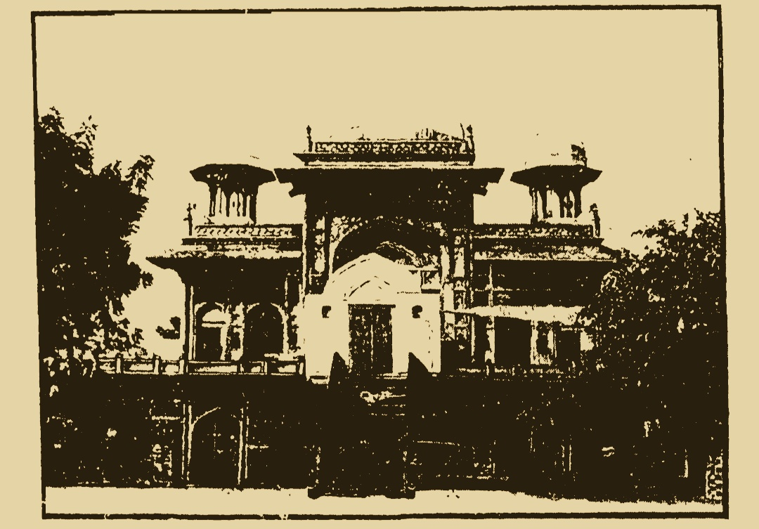 Shahi Masjid Allahabad Rare pic